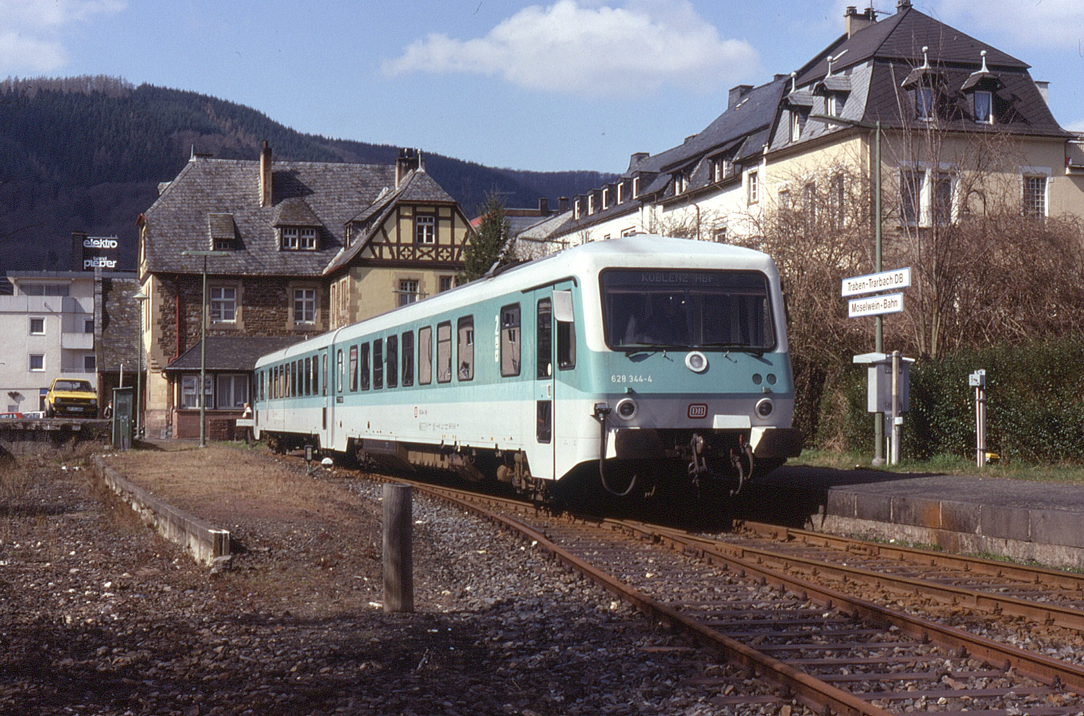 A line which went over to DMU operation early in the 1990s during the mass delivery of class 628 DMUs. The branch to Traben-Trarbach known as the Moselwein Bahn coming off the main Mosael Valley line at Bullay. Seen on 28 March 1993, set 628.344 is seen on train RB8443, 12:31 Traben-Trabach to Bullay.